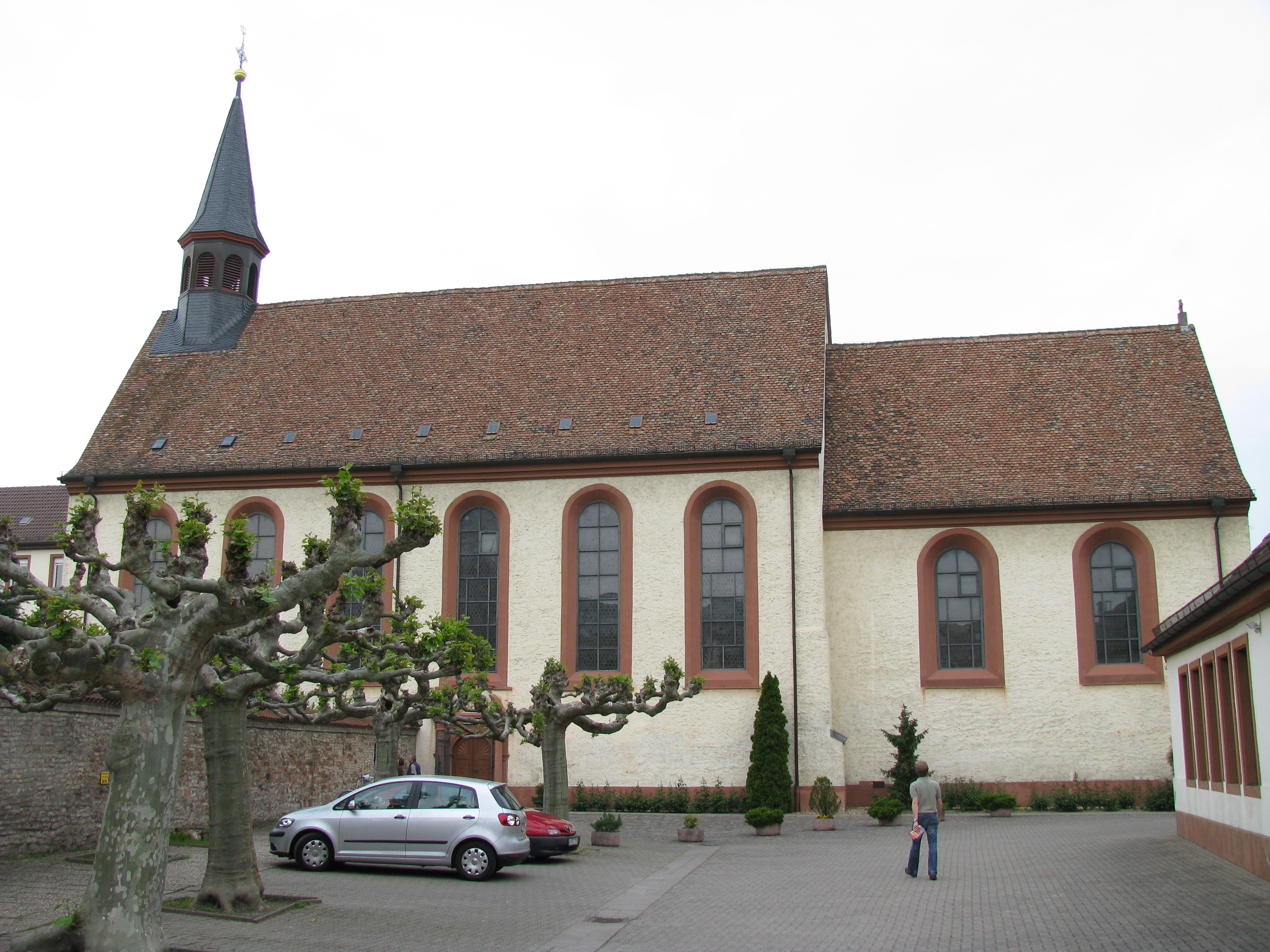 Speyer: Church of Monastery Saint Magdalena